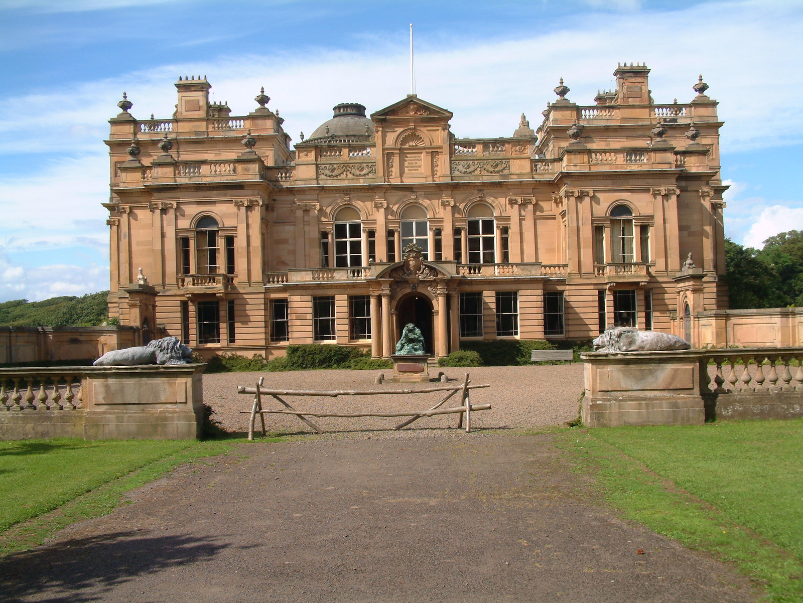 Gosford House